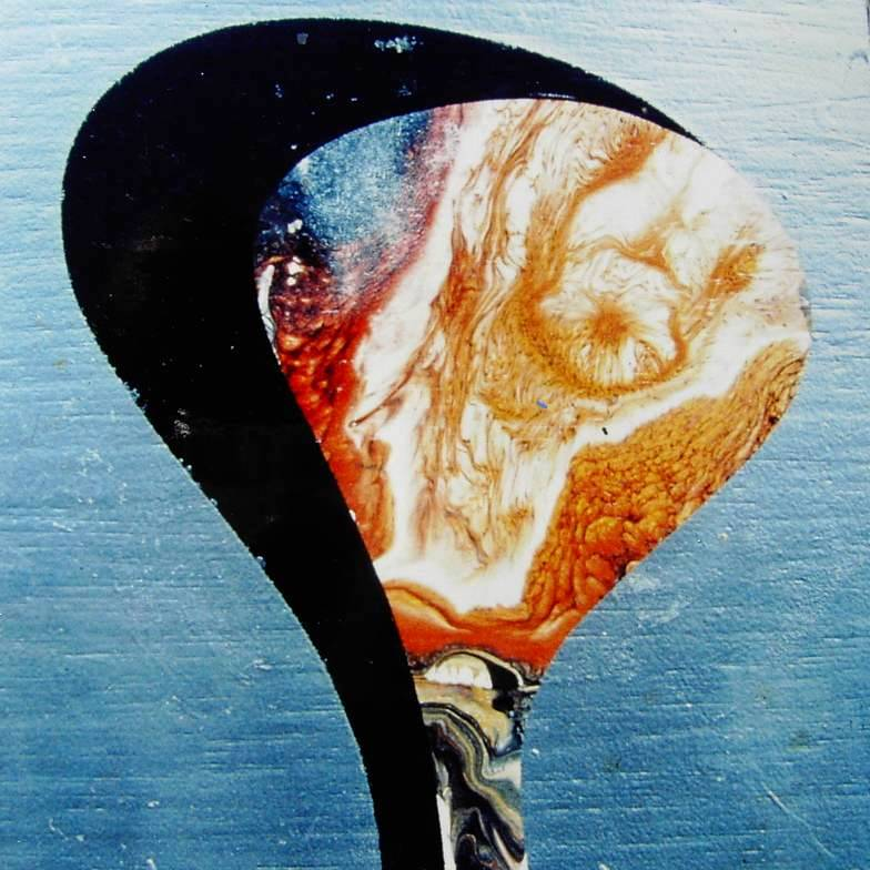 Mischtechnik gemalt von Josef Anton Geiser, 12,5x12,5 cm; 1973; Serie: TALE2